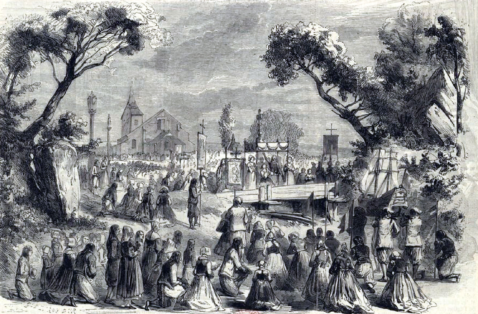 Set of Giacomo Meyerbeer's Le Pardon de Ploërmel (Dinorah) Act 3, by M. Cheret